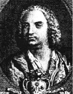 Description: Contemporary portrait of Paolo Antonio Rolli (1687 -1765) Artist: unknown Medium: Engraving